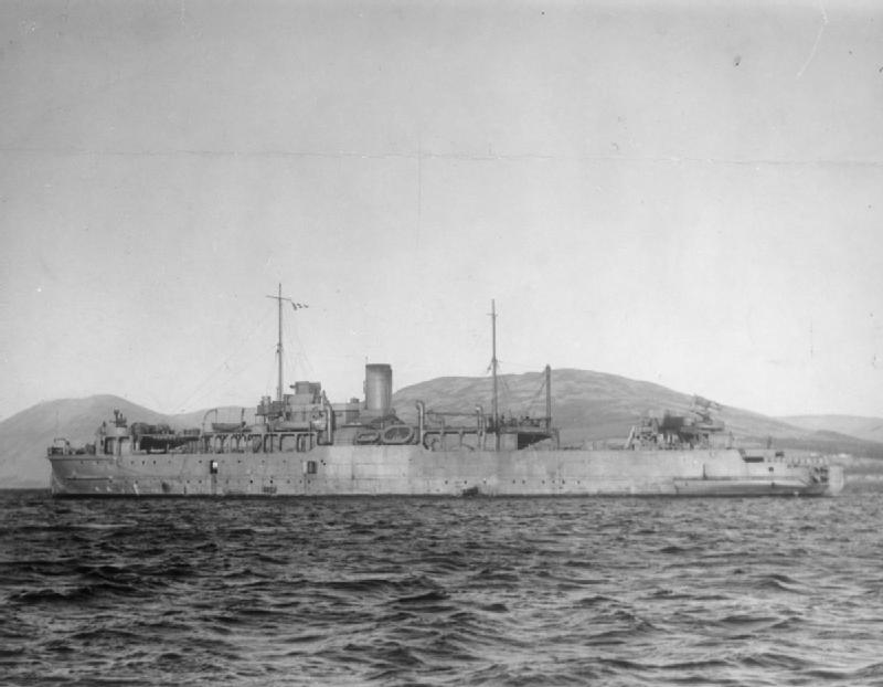 HMS Daffodil At anchor